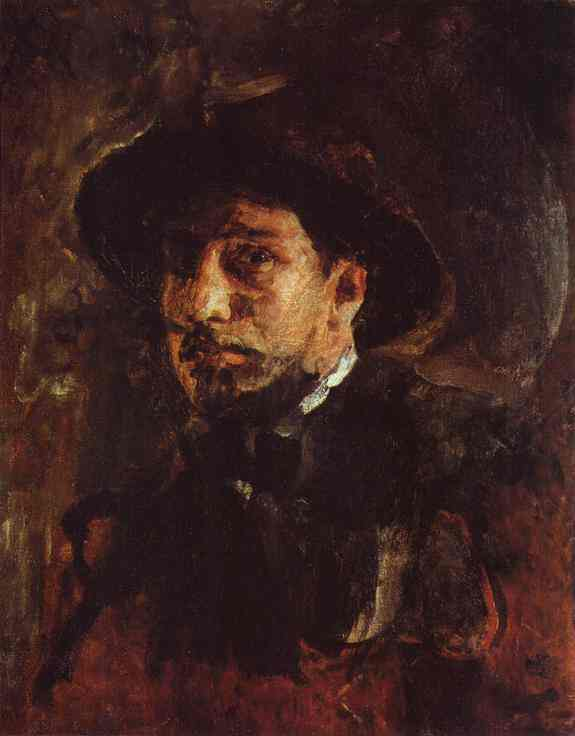 Self-Portrait. 1885. Oil on canvas.